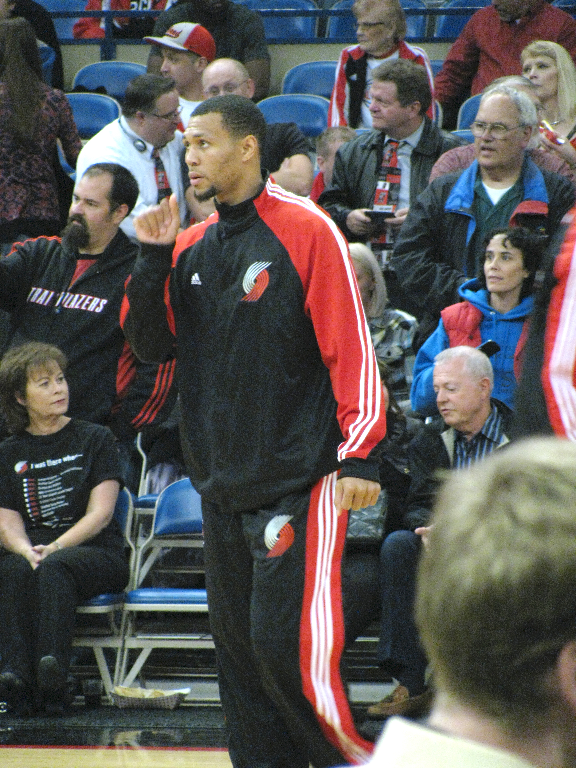 Brandon Roy, pregame, Blazers vs. Suns in Memorial Coliseum, 10/14/09 Photo by Brandon Goldner. Use this photo in accordance to creative commons.